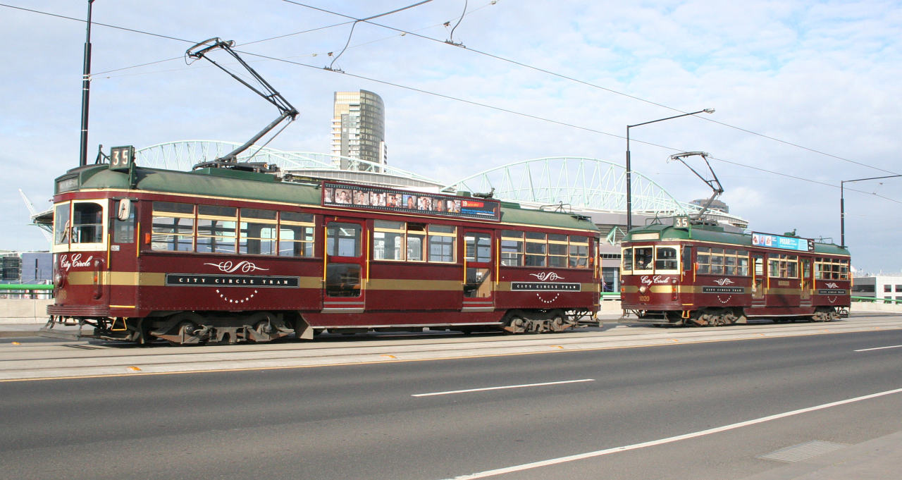 City Circle trams on Latrobe Street - Melbourne, Victoria, Australia